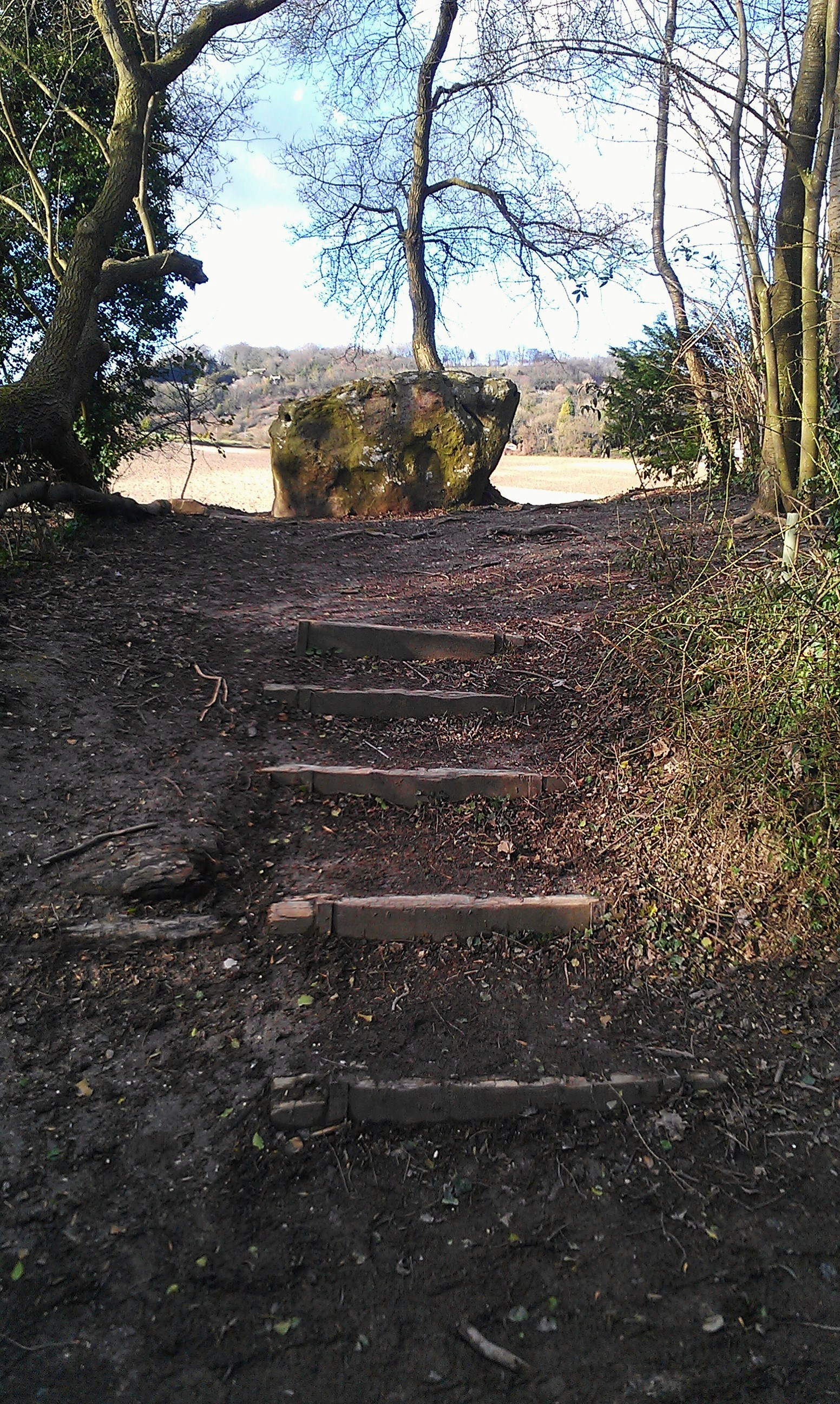 The steps approaching the White Horse Stone in Kent, one of the Medway megaliths.